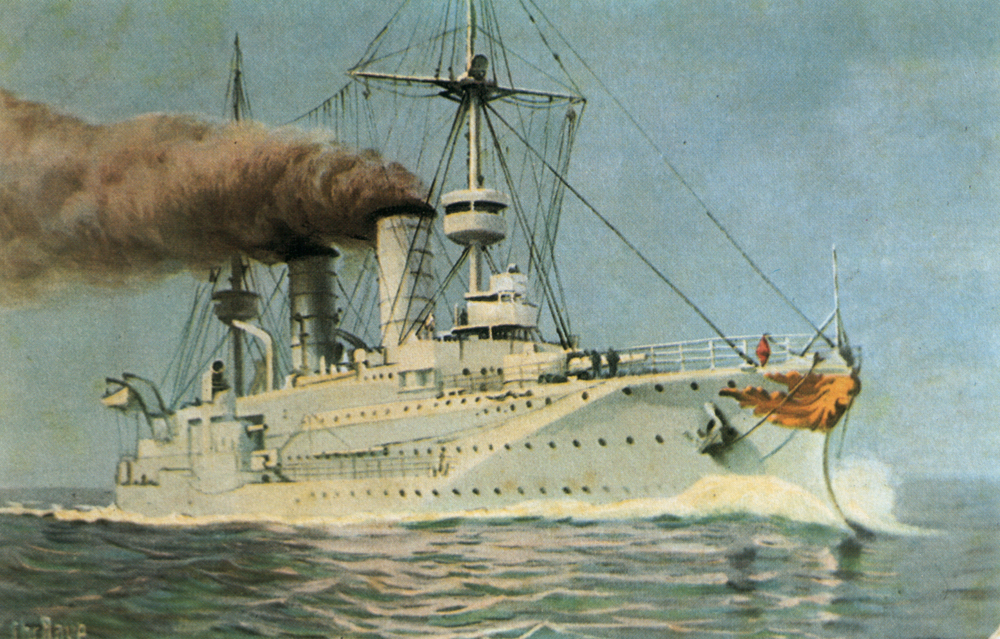 The German armored cruiser SMS Prinz Heinrich painted by Christopher Rave.